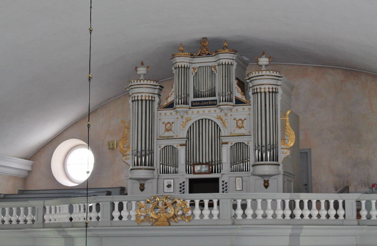 Korsberga Church.Organ built by Johannes Magnusson.